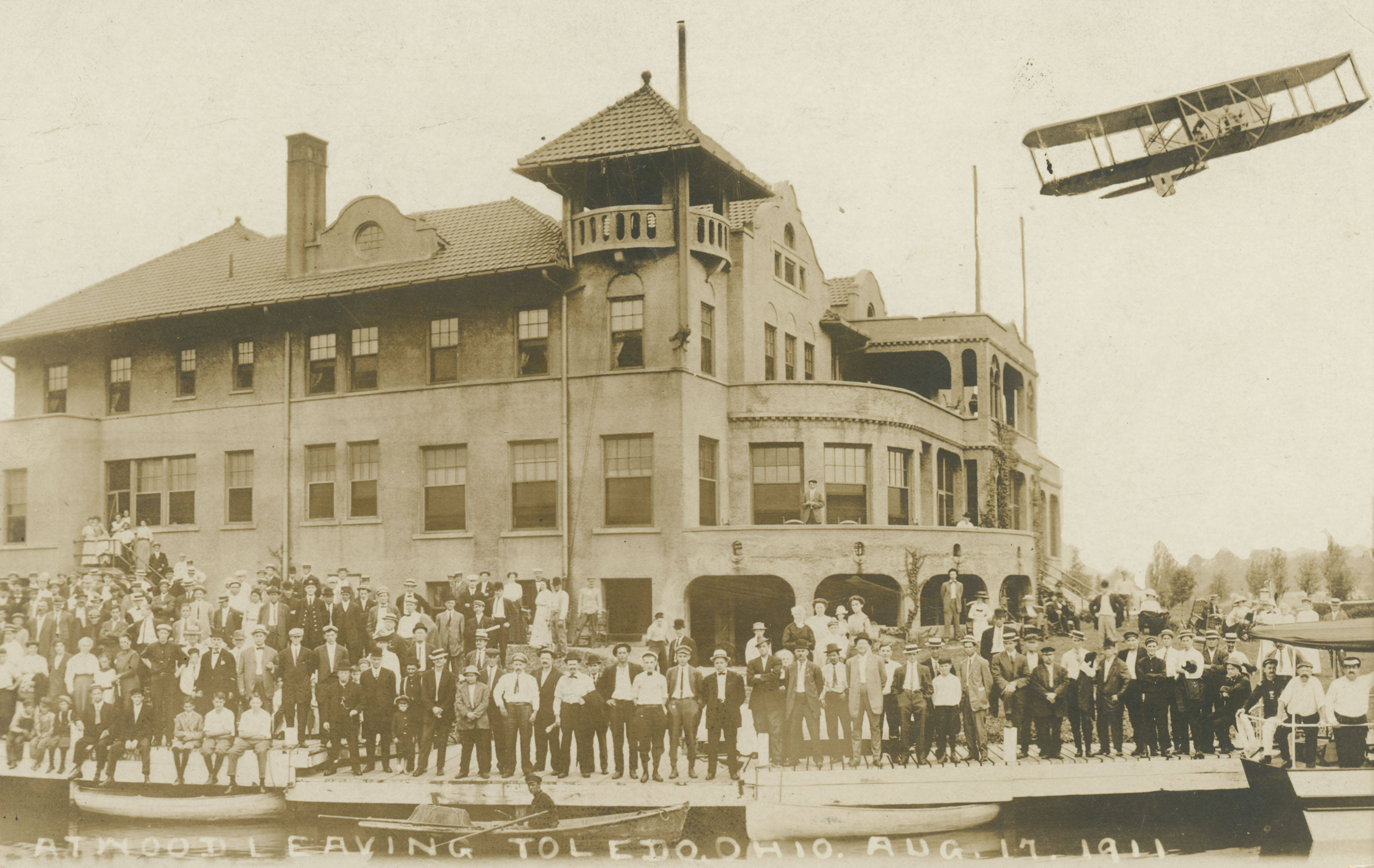 A postcard from the Ken Levin Toledo Postcard Collection, donated by Toledo resident, Ken Levin. The collection contains picture postcards about the Toledo area. Mr. Levin's collection was published by the Toledo Blade in a book entitled "You Will Do Better in Toledo: From Frogtown to Glass City", edited by Sandy and John R. Husman.